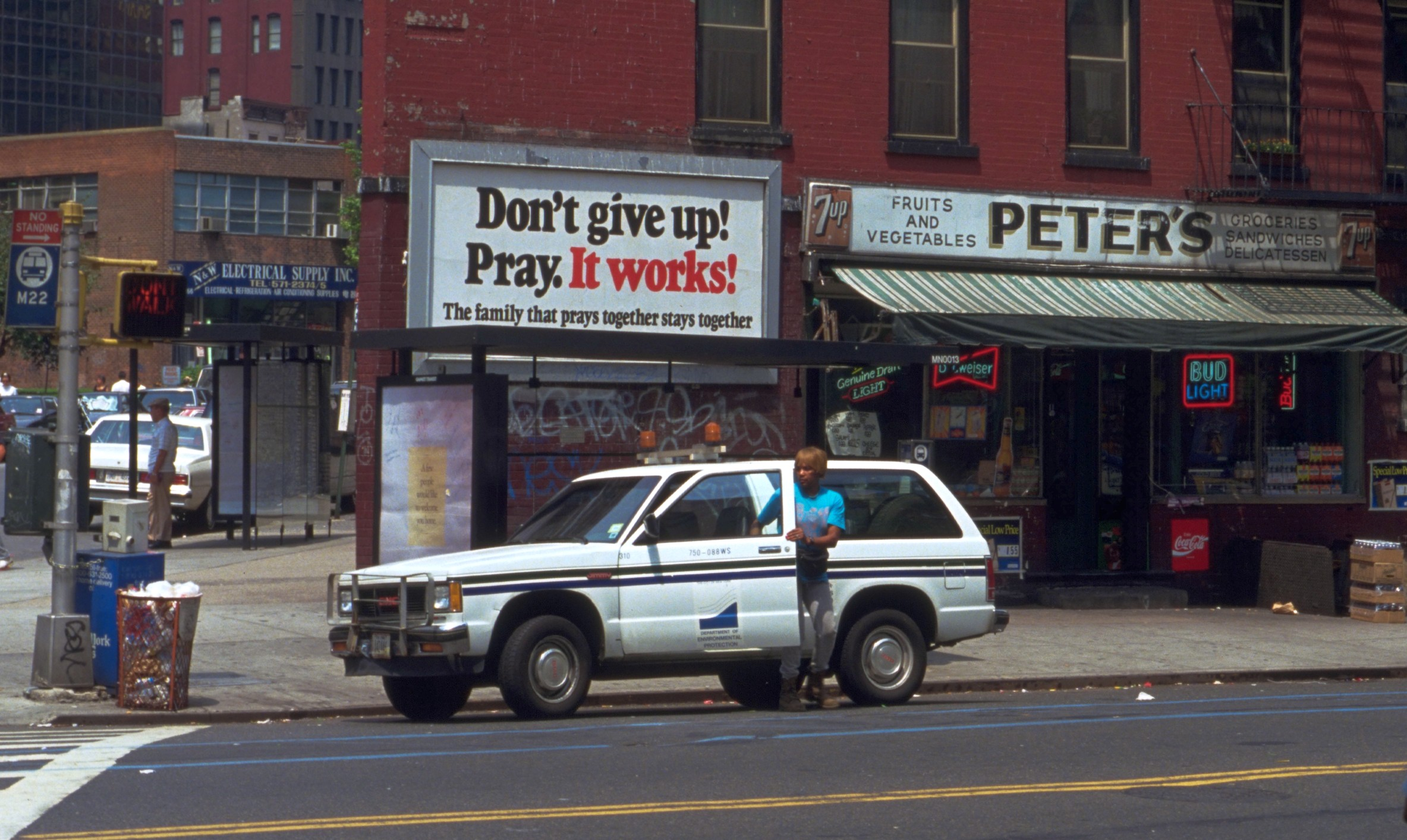 Street scene in the south of Manhattan, New York City